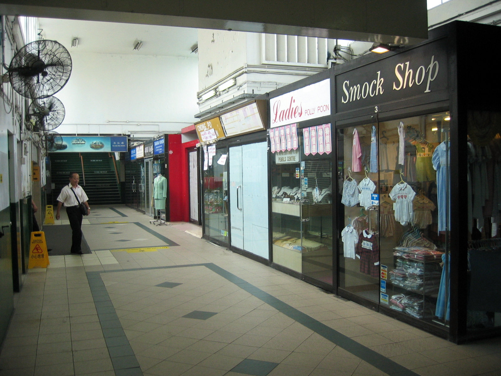 Edinburgh Place Ferry Pier Enterance Shops 愛丁堡廣場碼頭內的商店